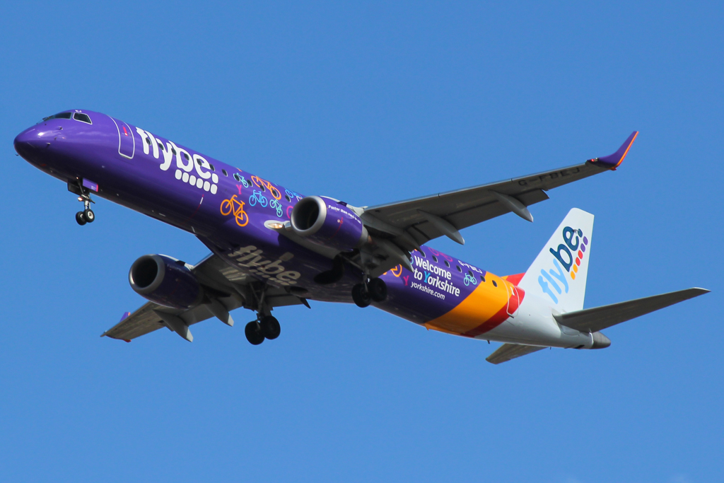 G-FBEJ Embraer 195 Flybe landing at Glasgow Airport with "Welcome to Yorkshire" titles"